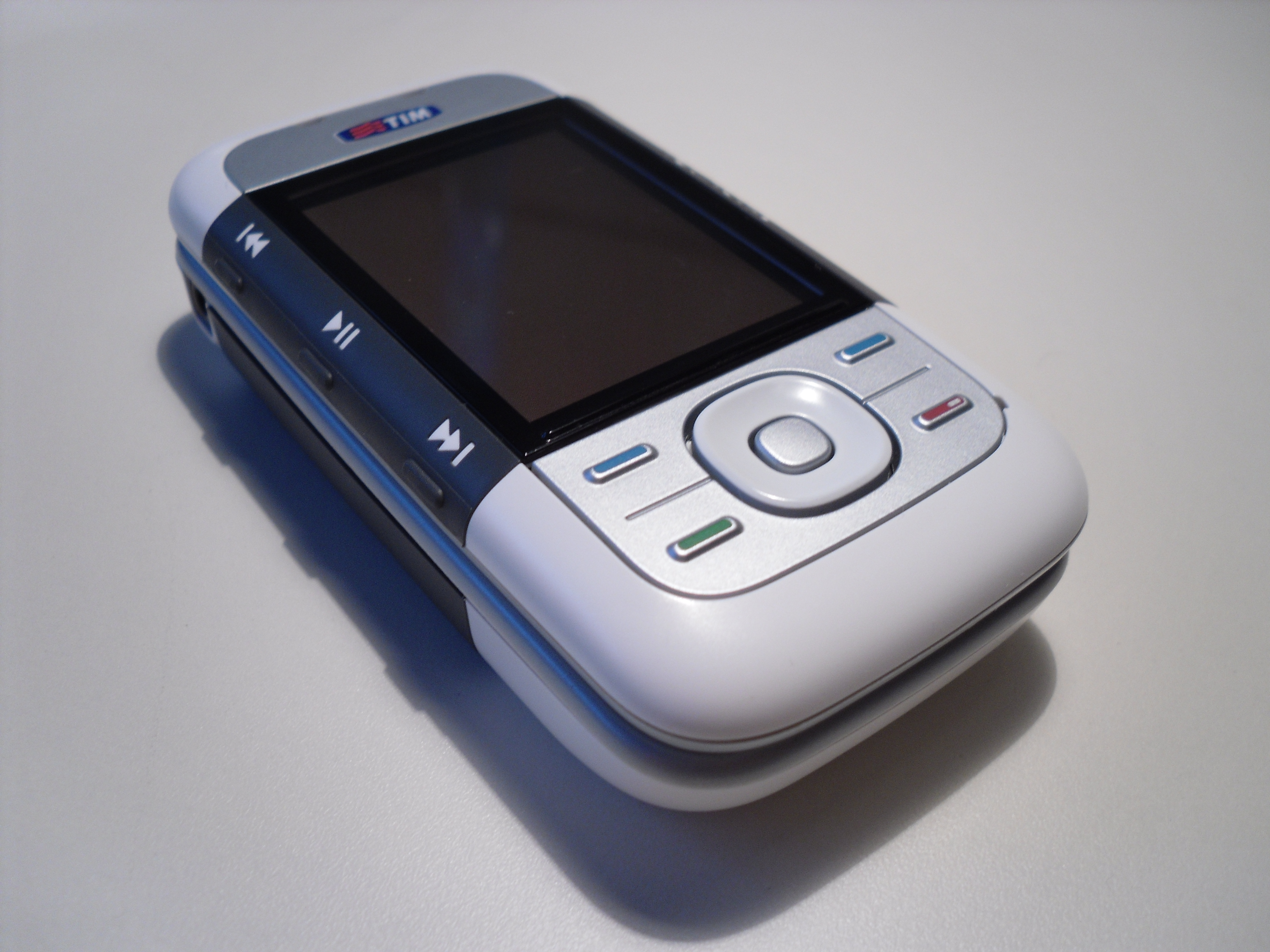 A grey Nokia 5300 on a table.